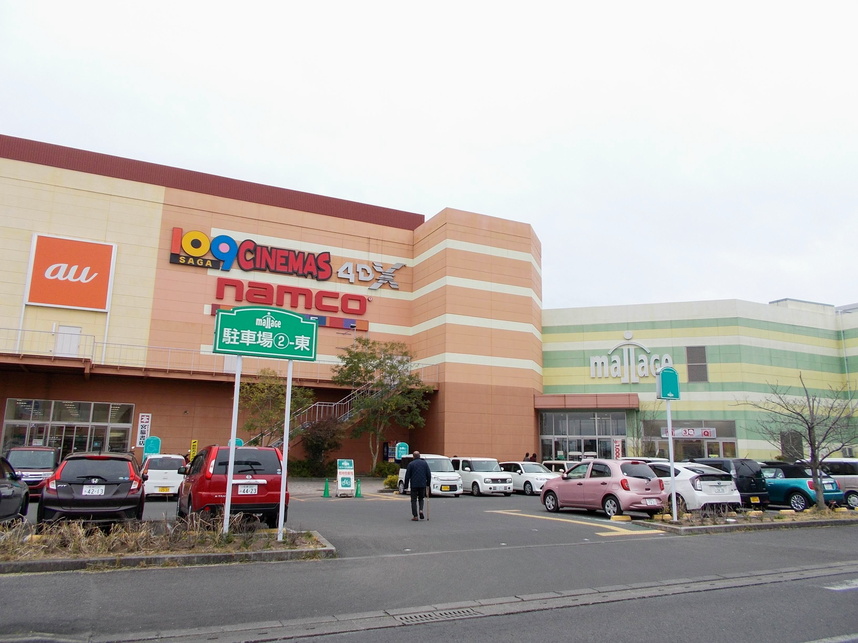 Mallage Saga is a shopping complex in Saga city, Saga, Japan